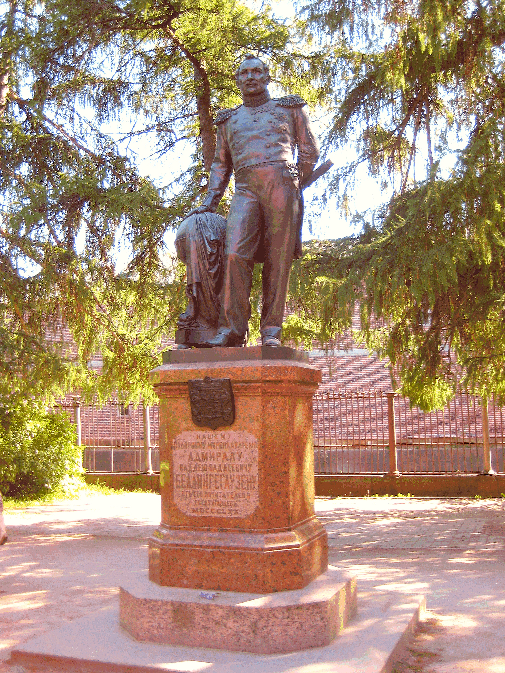 The monument to the navigator Admiral F.F. Bellingshausen (sculptor N. I. Schreder, architect I. A. Monegety), 1870: Sovetskaya Street, Catherine Park, Kronstadt, Kronstadt District, St. Petersburg